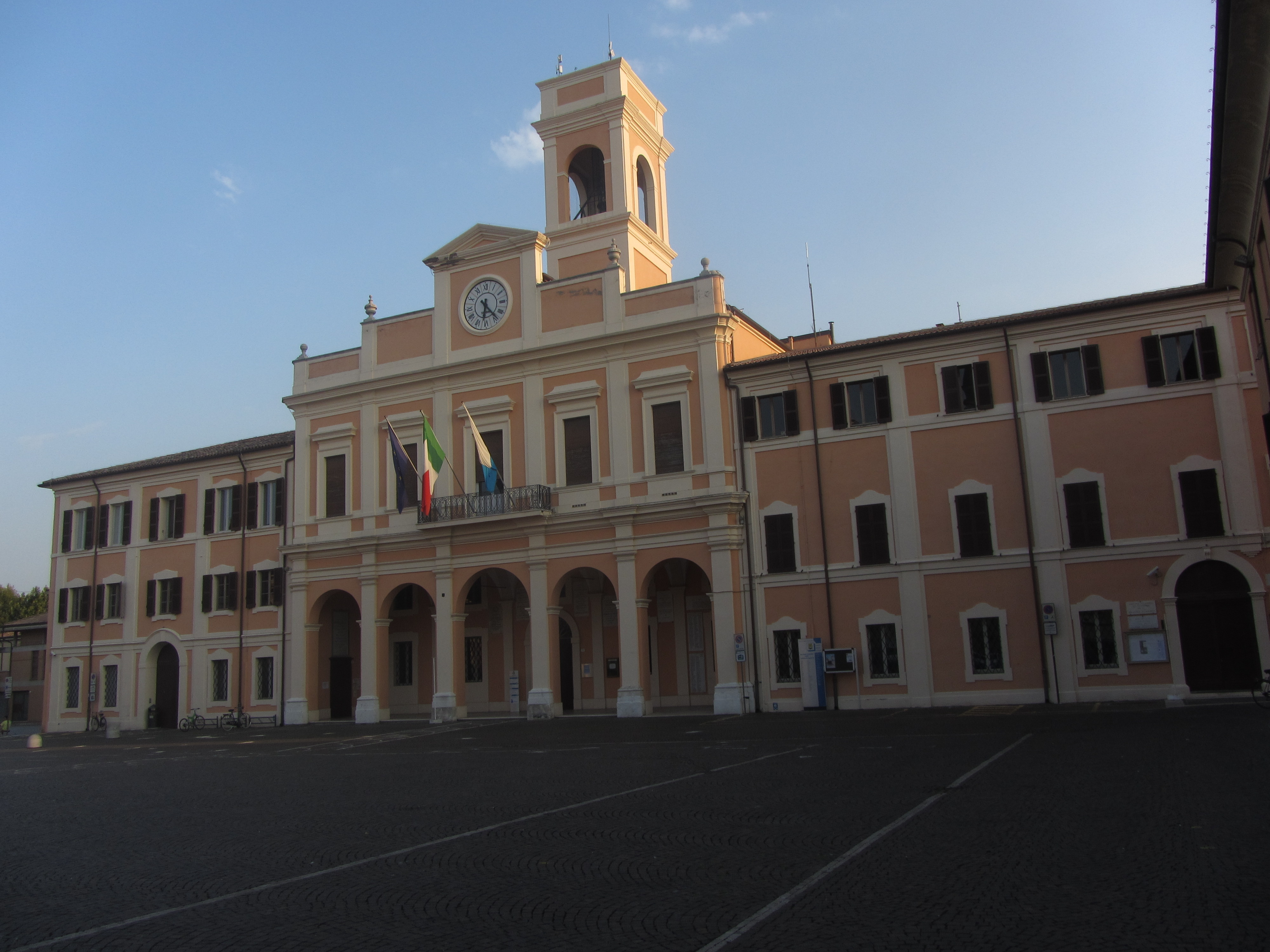 Savignano sul Rubicone, Palazzo Comunale